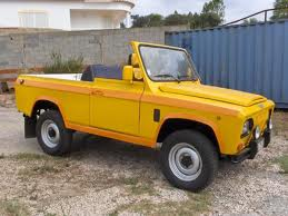 A 1980s PORTARO 250DGL Diesel 2500 with hardtop removed